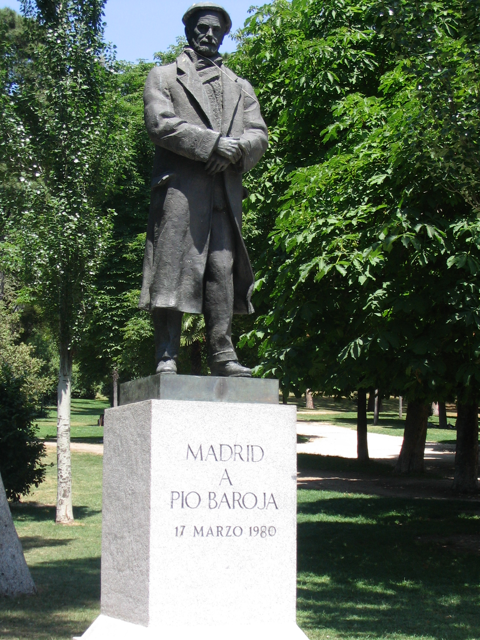 Bronze statue of Pío Baroja (1872–1956) on a granite pedestal. Made by sculptor Federico Coullaut-Valera Mendigutia in 1979. Inaugurated in the Retiro Park in Madrid (Spain) on March 17th, 1980.